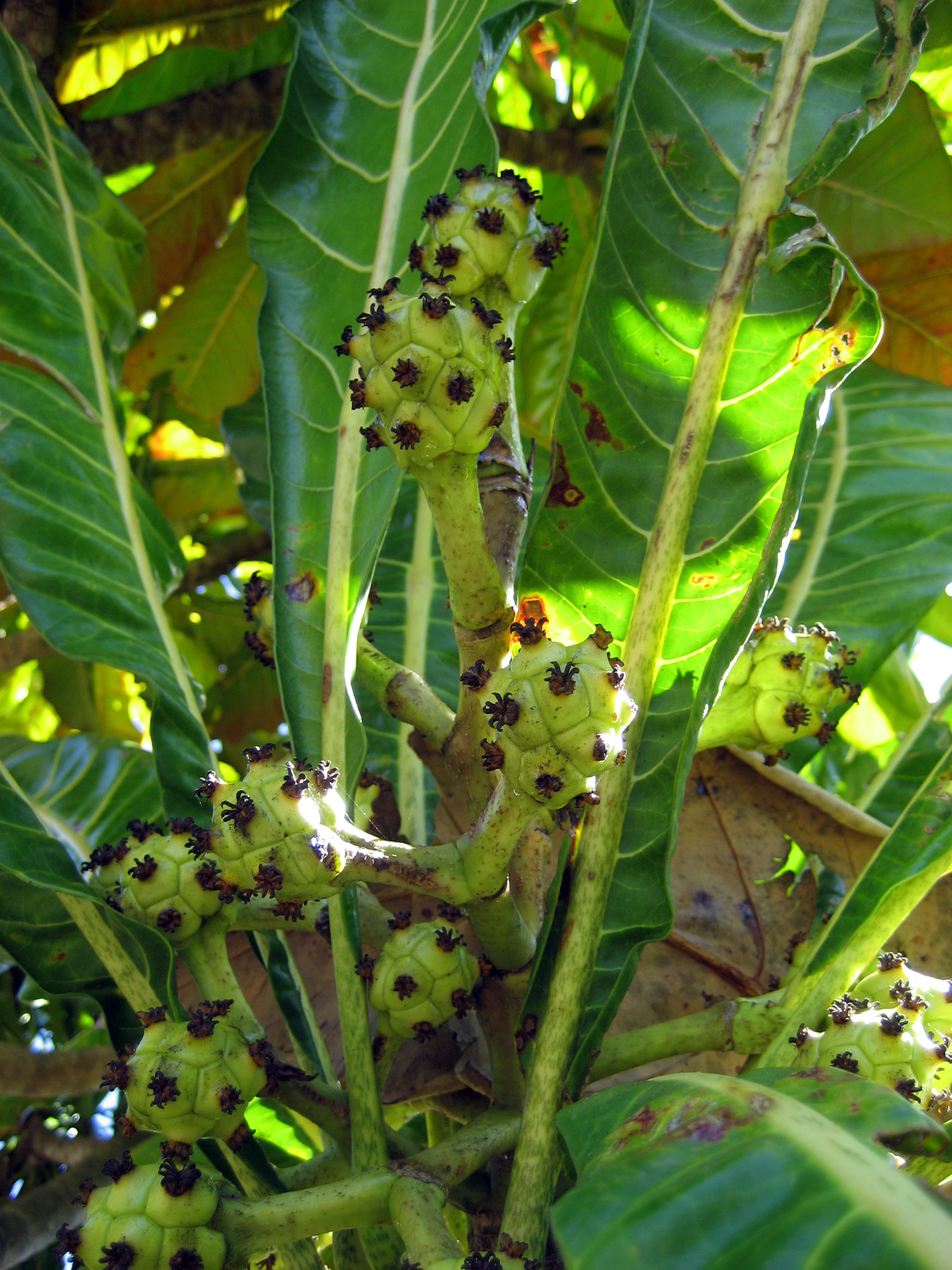 Fruits of Meryta denhamii, from a tree growing in cultivation at Manukau City, New Zealand